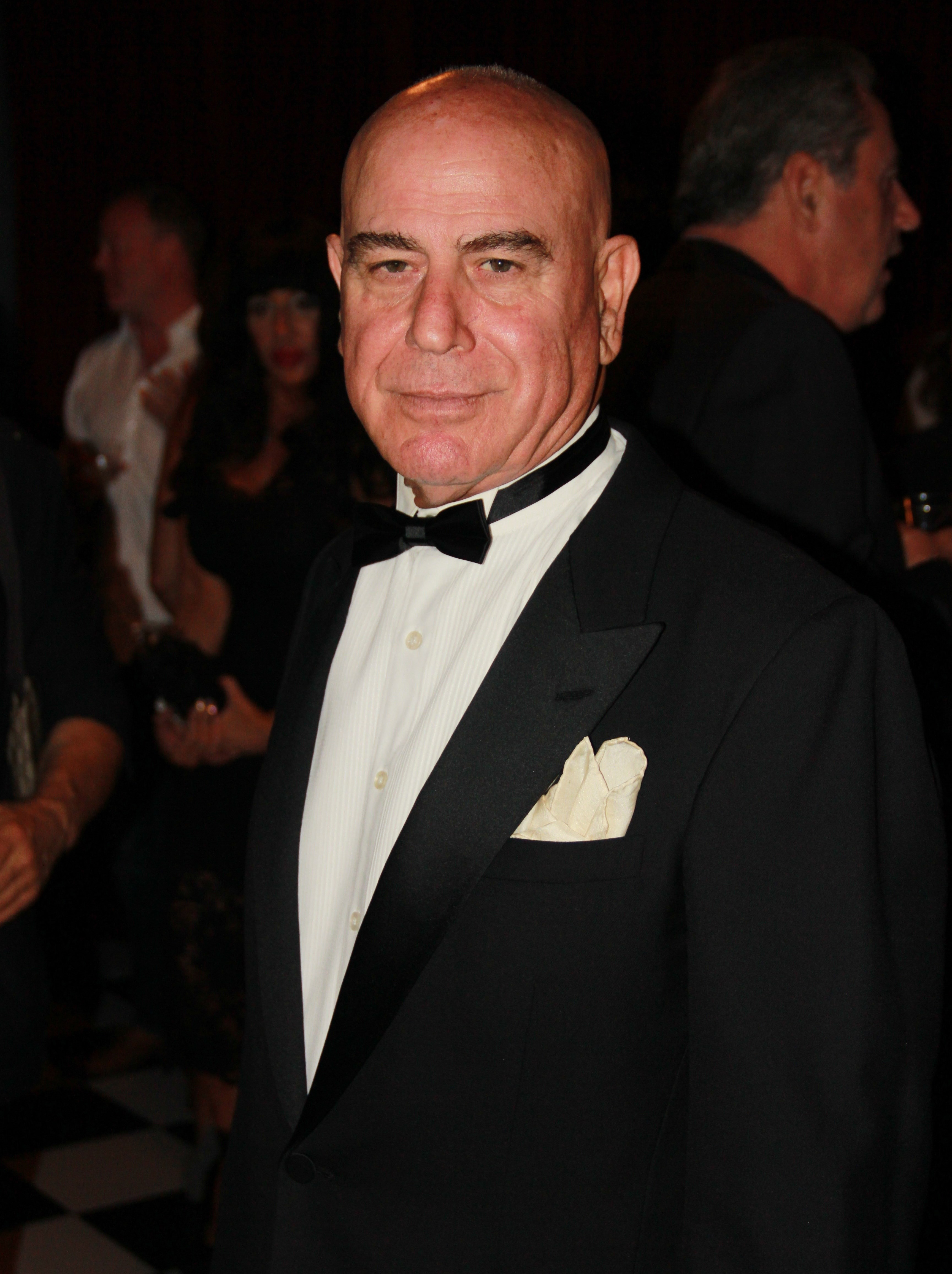 Aharon Ipale at the 2014 Seventh Annual Bel Air Film Festival Presented by the A2E Family Partnership at the Saban Theatre in Beverly Hills.